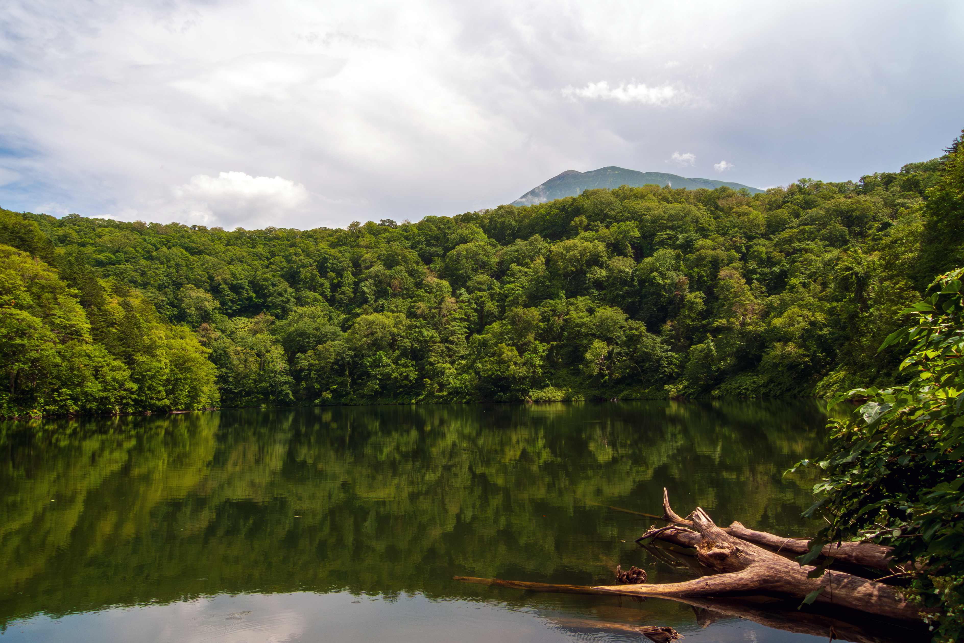 Lake Hangetsu (Hangetsuko, "Half Moon Lake") in Kutchan Town, Hokkaido, Japan